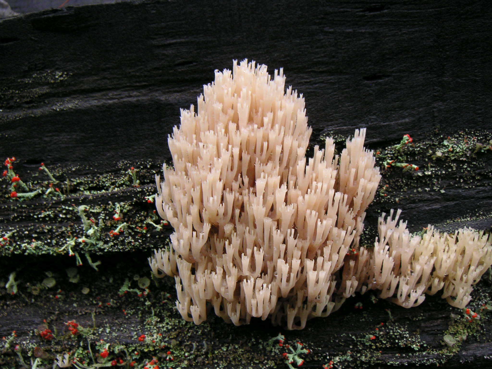 Artomyces pyxidatus (Pers.) Jülich Location: Lebanon, Grafton Co., New Hampshire, USA Observation Notes: These Crown-tipped Coral were growing on an old rail road tie. This rail road tie was also covered with Cladonia cristatella, (British Soldiers). For more information about this, see the observation page at Mushroom Observer.